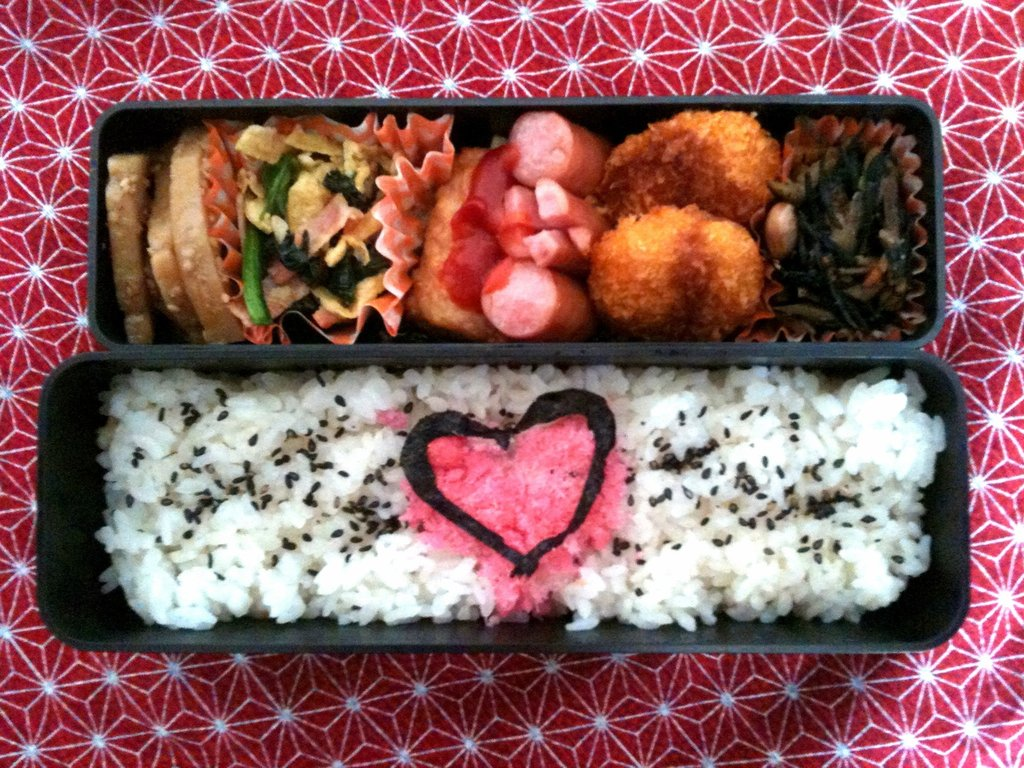 Taken with picplz .